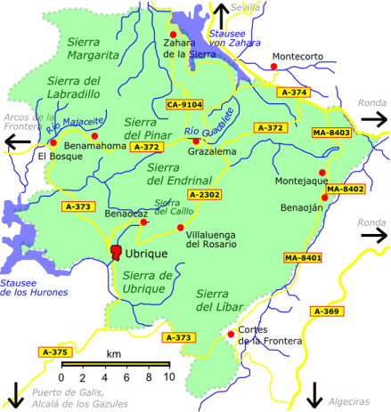 map of natural park Sierra de Grazalema, Andalusia, Spain